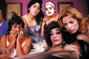 Image fix du film Putain de vie